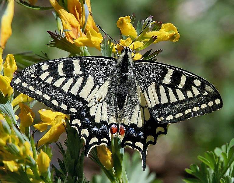 Common Yellow Swallowtail - Papilio machaon. Shot taken at Kullu Distt., Himachal, India during Sar Pass Trek (around 10500 ft.)on way to Zirmi Thaatch(11000 ft.).